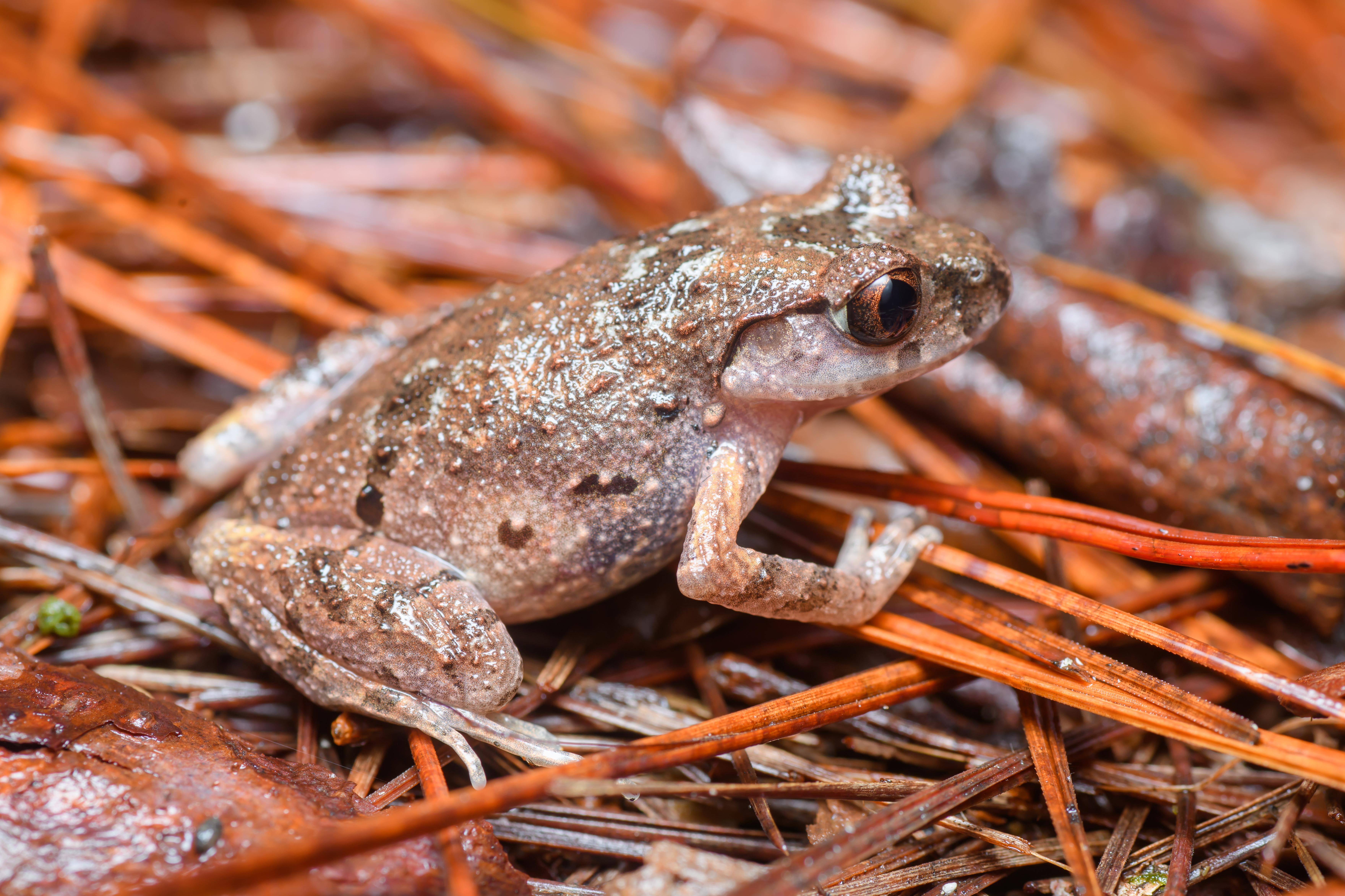 Leptolalax minimus - Phu Kradueng National Park. Photo by Thai National Parks